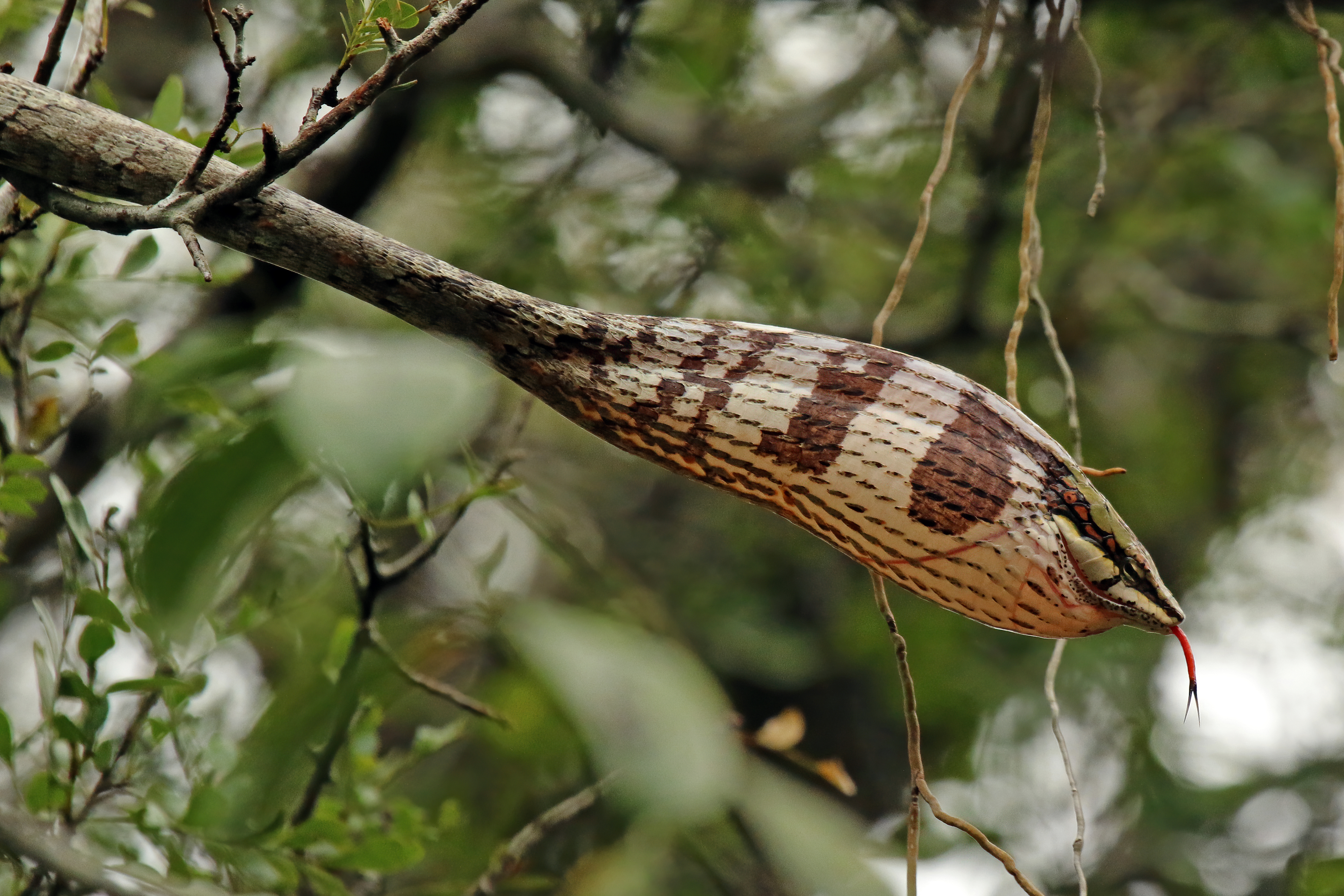 Southern vine snake (Thelotornis capensis capensis), Phinda Private Game Reserve, KwaZulu Natal, South Africa